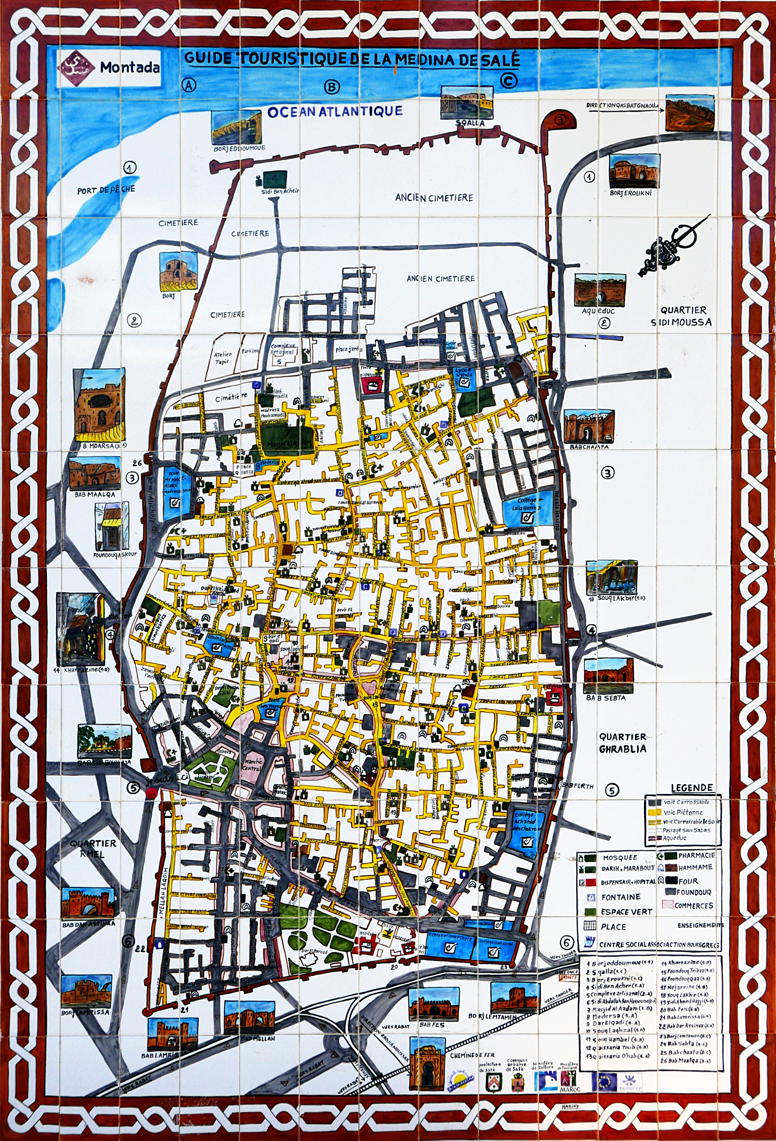 A picture of a tourist map of the old town of Salé I found in Salé.